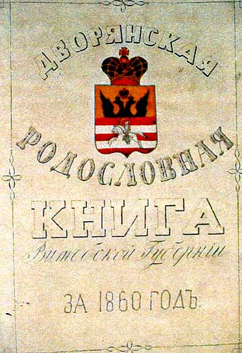 Aristocratic pedigree book of Vitebsk in 1860 (cover)